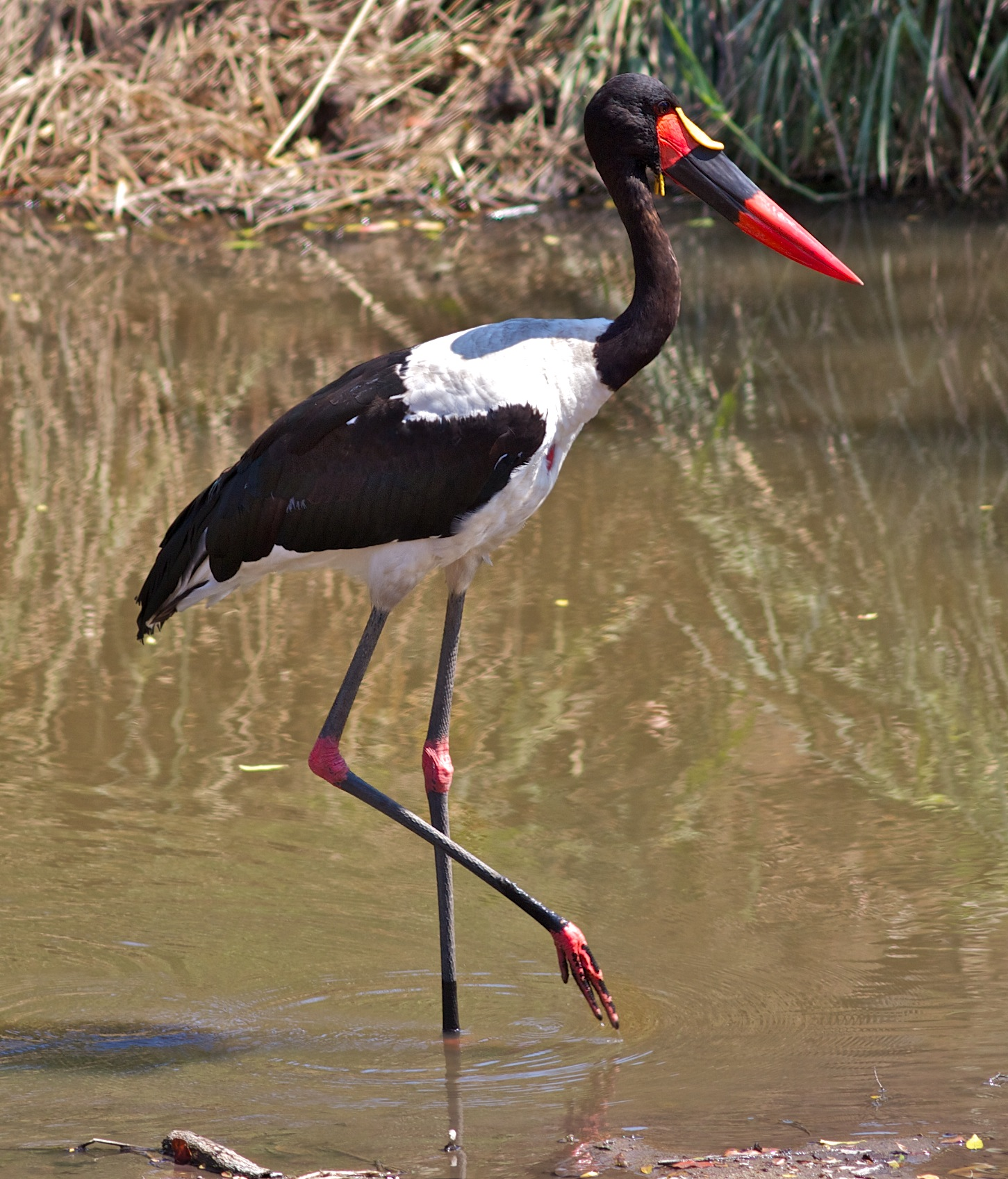 A male Saddle-billed Stork at Kruger National Park, Limpopo, South Africa.